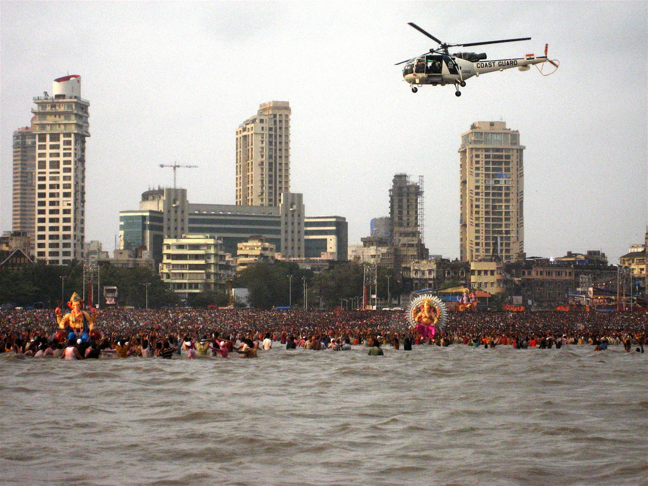 An Indian Coast Guard helicopter patrols Girguam Chowpatty beach during Gapati Visarjan c.2007